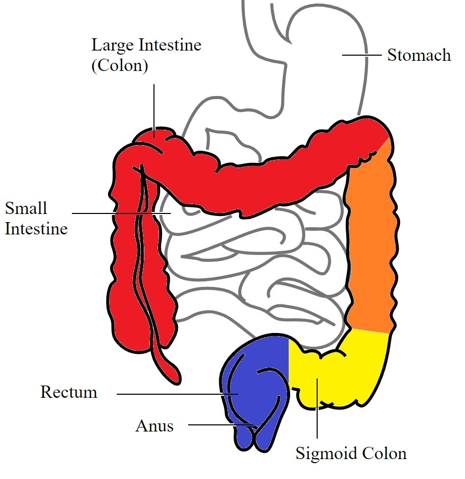 Representation of staging system for colitis, based on the Montreal classification, which is used to define the extent of involvement of ulcerative colitis. Proctitis (blue), proctosigmoiditis (yellow), left sided colitis (orange) and pancolitis (red).